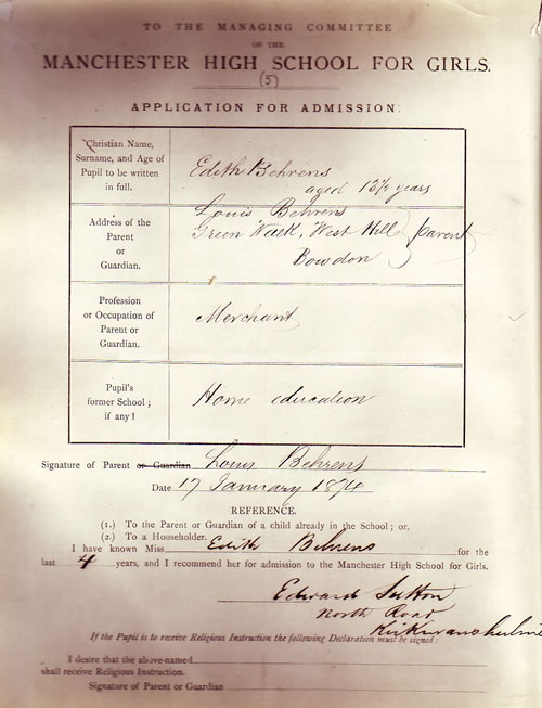 Manchester High School for Girls: admission application 1874